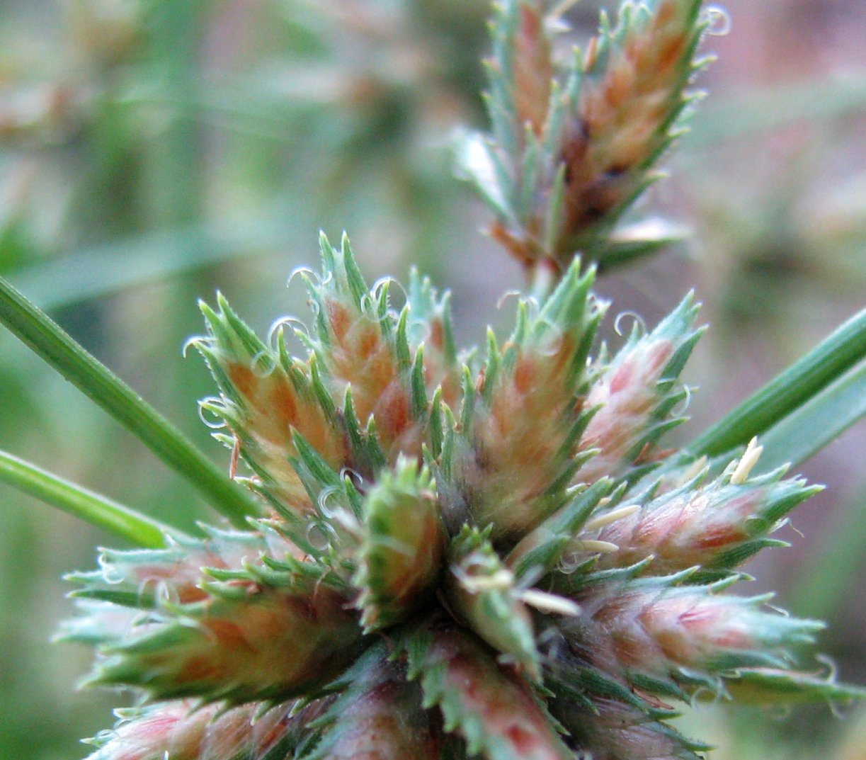 Puʻukaʻa or Sticky flatsedge Cyperaceae Endemic to the Hawaiian Islands Endangered Oʻahu (Cultivated) Flowering. NPH00003